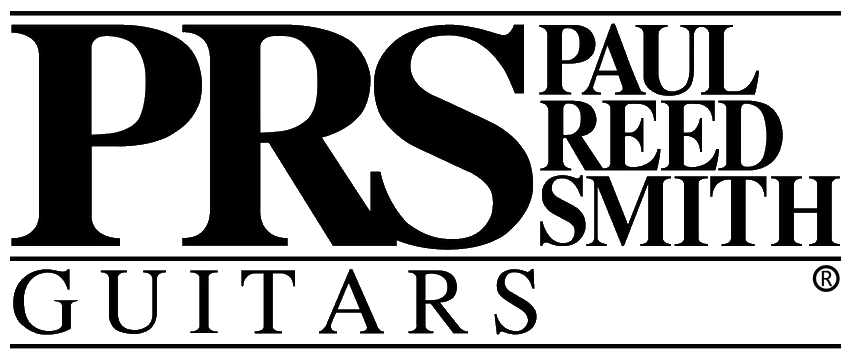 Logo of PRS, a guitar manufacturer company from the United States.